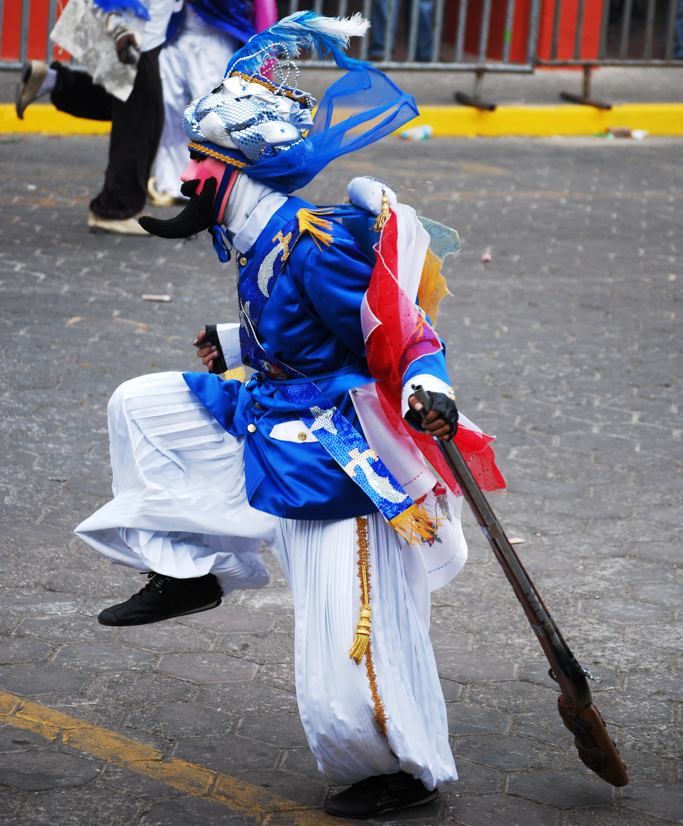 "Turk" dancing at the Carnival of Huejotzingo, PUebla, Mexico